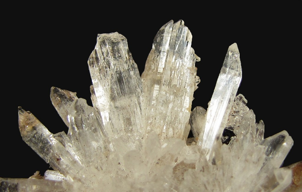 Creedite Locality: Qinglong (Dachang) Sb-Au deposit, Qinglong County, Qianxi'nan Autonomous Prefecture, Guizhou Province, China (Locality at ) Size: 3.4 x 3.0 x 1.3 cm. This is a fine toenail or small-miniature. Perched aesthetically on a small amount of matrix is a radiating, starburst of bright, glassy and gemmy, colorless creedite crystals, to 1.7 cm in length. Tim Blackwood Collection.